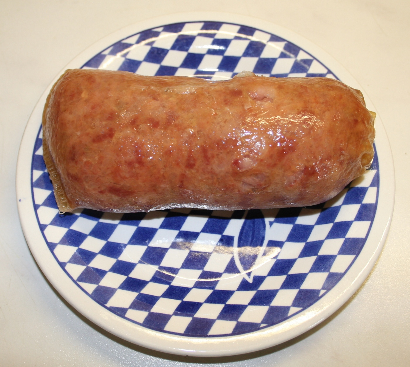 A whole Cotechino Modena, Just cooked, ready to serve.